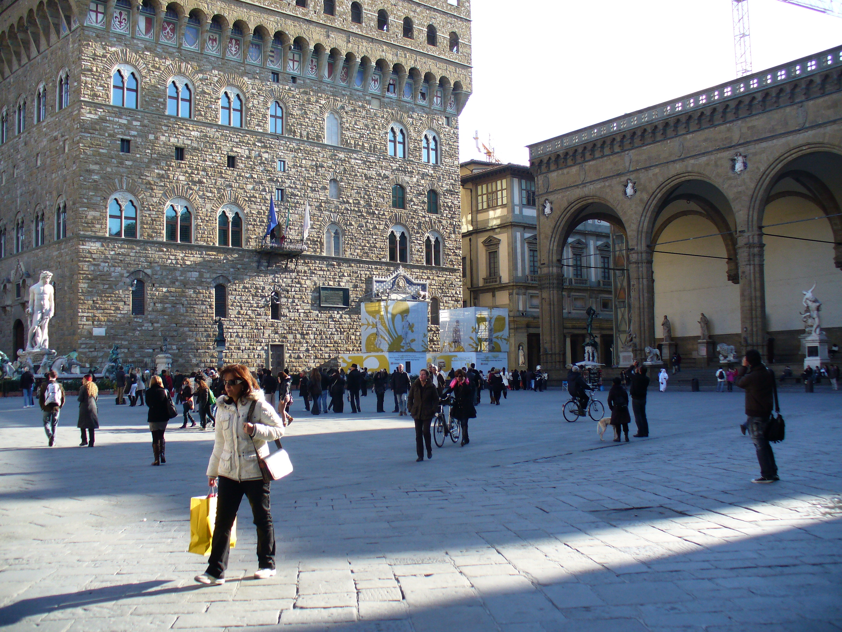 Piazza della signoria Florence